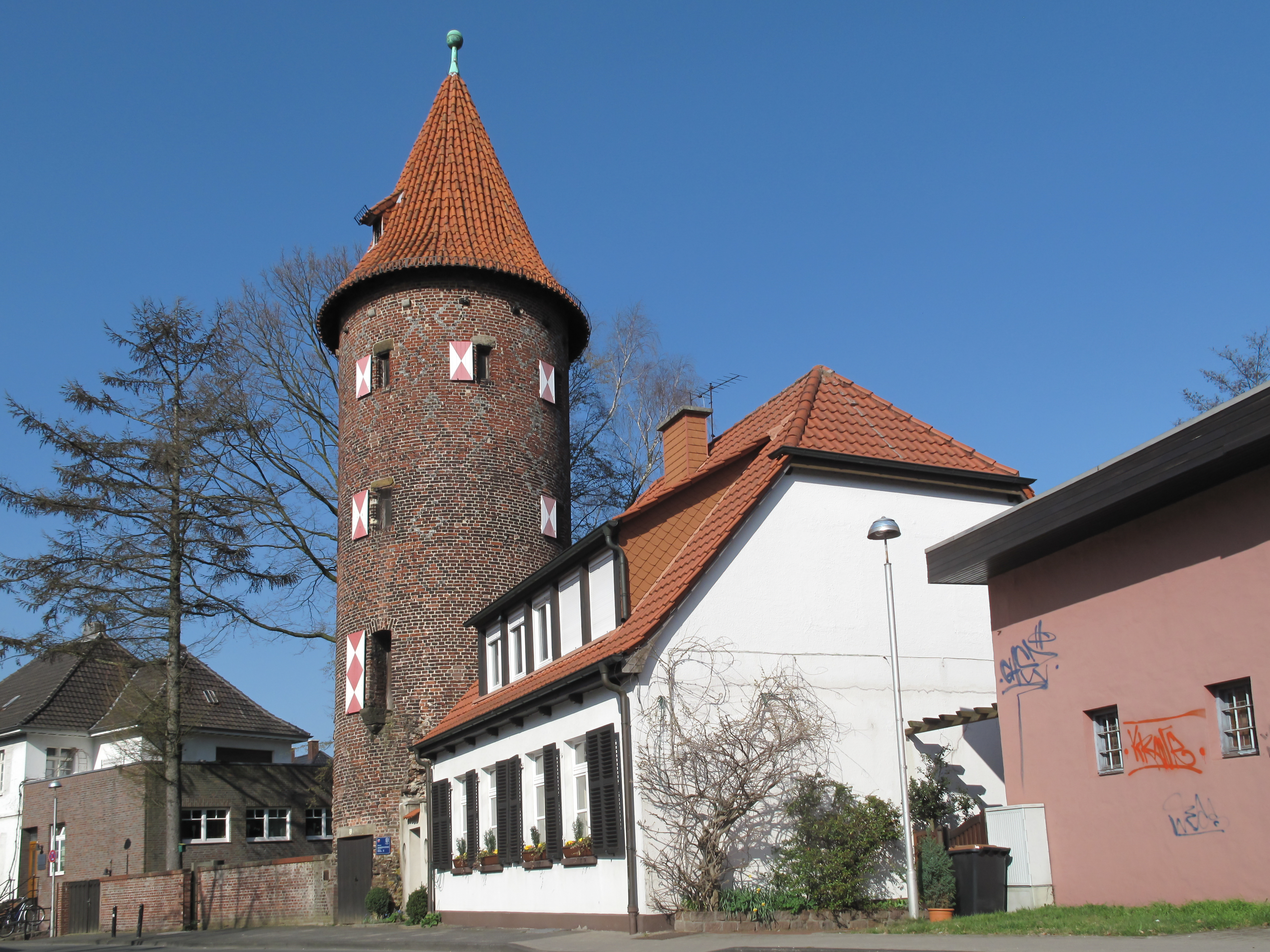 Borken, tower: der Kuhmturm